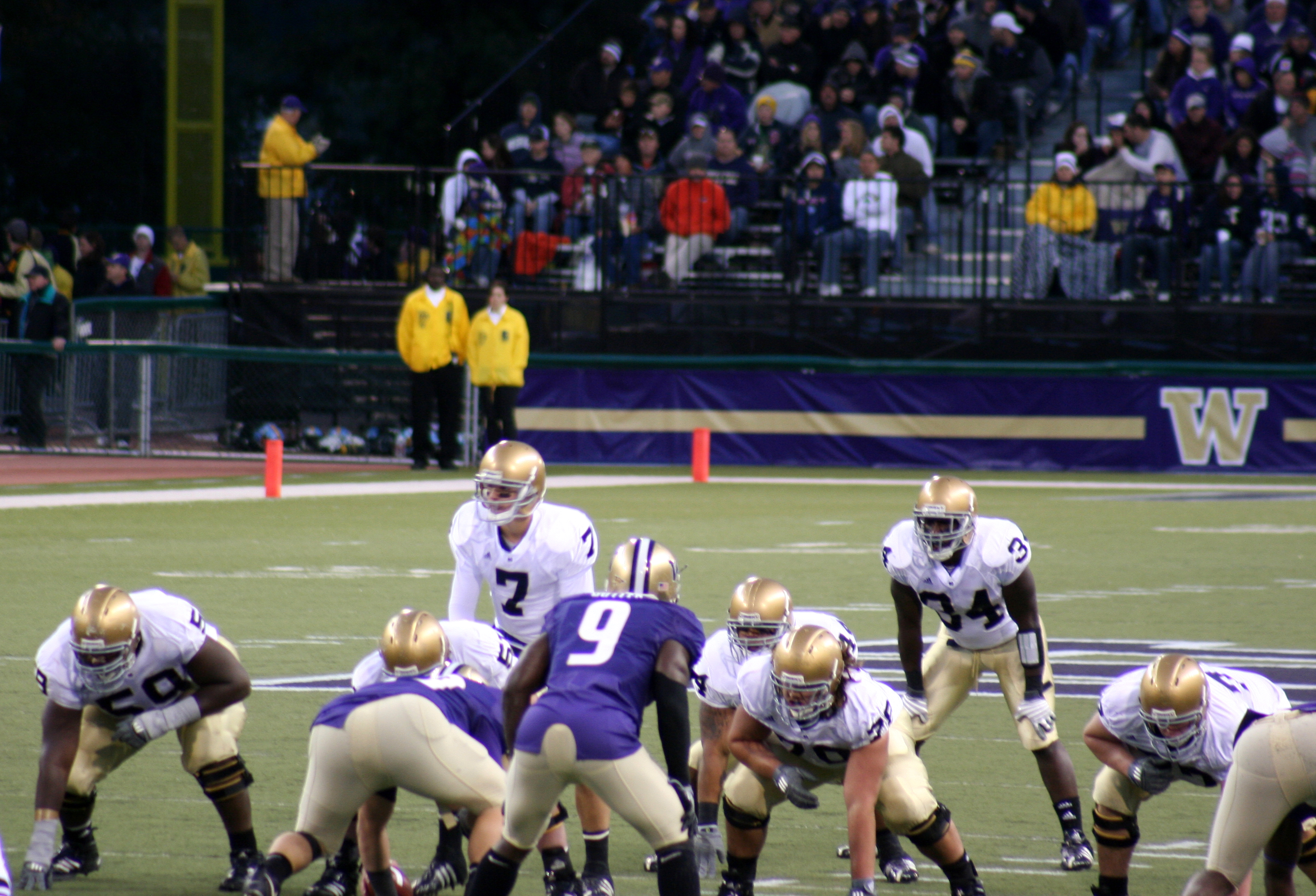 A picture I took of the Notre Dame offense during the 2008 Notre Dame vs Washington game in Seattle.